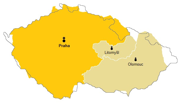 Schematic map of the Archdiocese of Prague and dioceses of Litomyšl and Olomouc around 1400, showing the borders of the Czech Republic